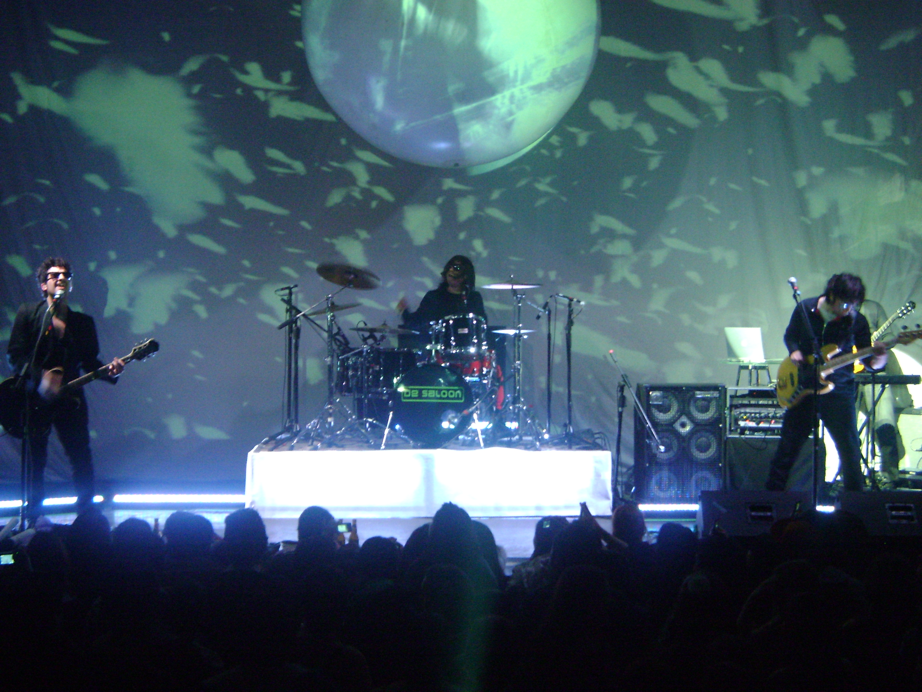 Chilean rock band De Saloon performing live at Centro Cultural Amanda.